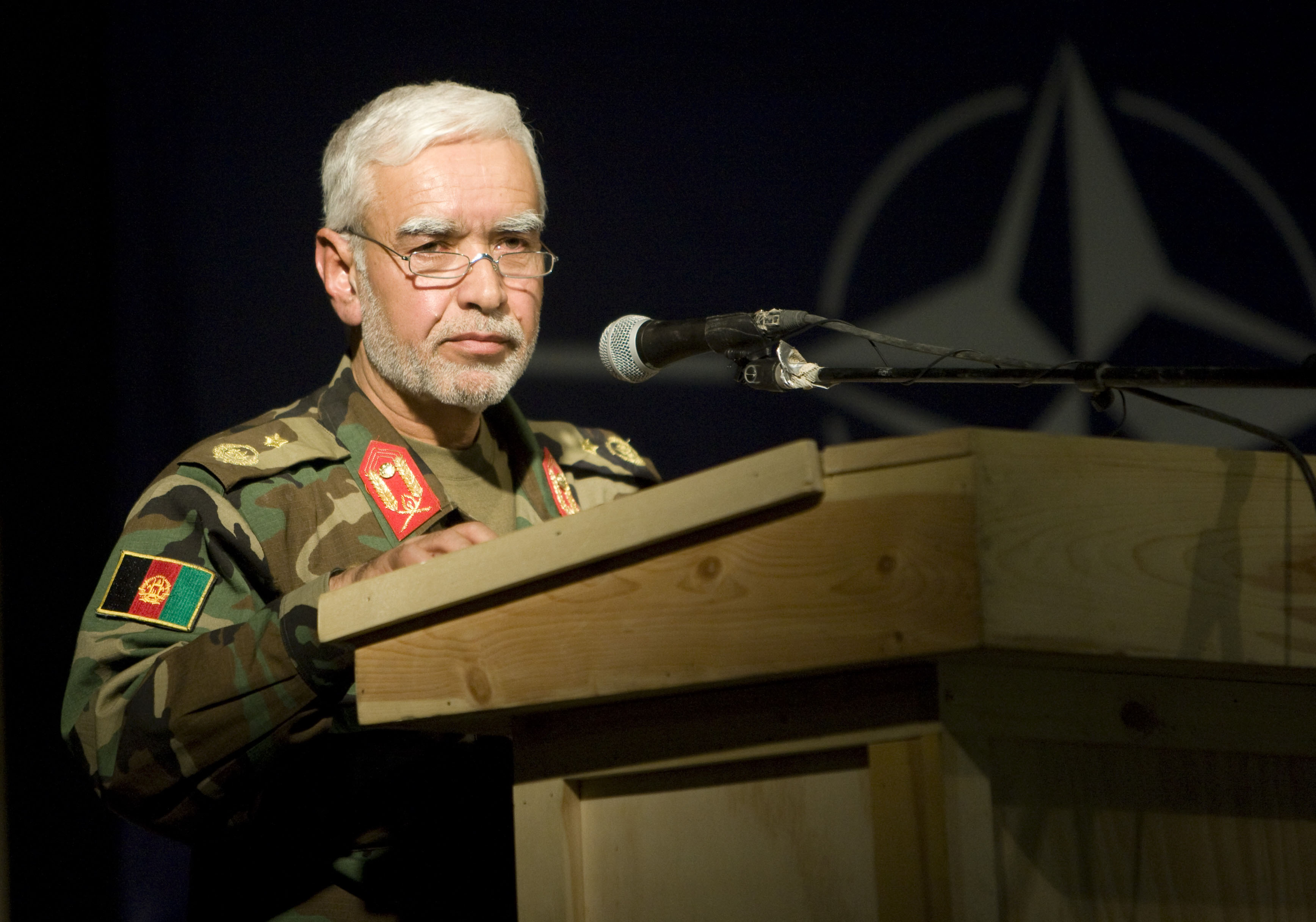 KANDAHAR AIRFIELD, Afghanistan (November 1) – A ceremony took place today at Kandahar Airfield to mark the transfer of authority of Regional Command (South) from Major-General Mart de Kruif to Major-General Nick Carter. With this transfer, leadership of RC (South) has passed from The Netherlands to the United Kingdom. Major-General de Kruif assumed command of RC (South) on November 1, 2008. Major-General Carter, a 30-year veteran of the British Army, has had operational service in Europe, Asia and the Middle East. RC (South) is one of five regional ISAF commands. The formation consists of nearly 40 000 troops from 16 nations. It includes six provinces – Nimruz, Helmand, Kandahar, Zabul, Uruzgan and Daykundi. RC (South) conducts security, reconstruction, and development operations jointly with Afghan National Security Forces in support of the Government of the Islamic Republic of Afghanistan. (Photos by Sergeant-Major Liepke Plancke)